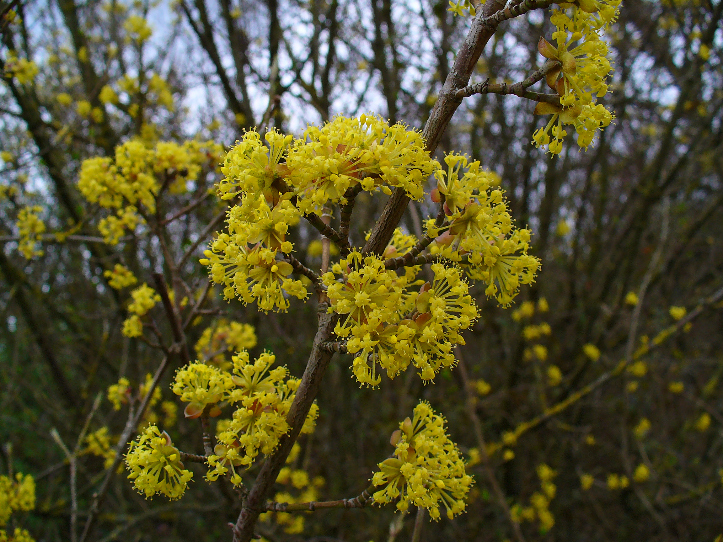 Cornus mas, Cornaceae, European Cornel , inflorescences; Karlsruhe, Germany. The bark is used in homeopathy as remedy: Cornus mas (Corn-m.)